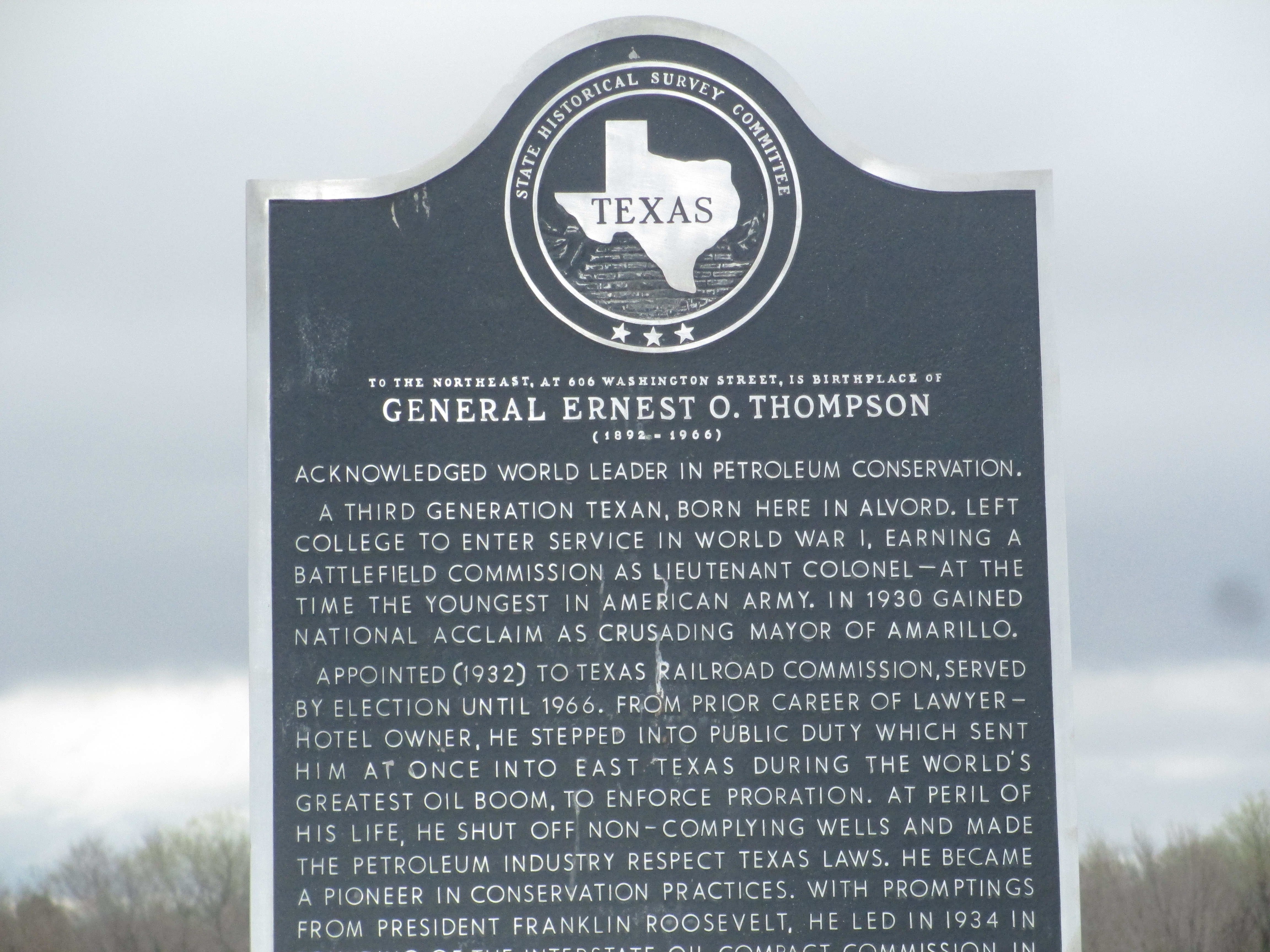 I took photo of Ernest O. Thompson historical marker in his birth place, Alvord, TX, with Canon camera, April 4, 2013. Billy Hathorn (talk) 01:35, 12 April 2013 (UTC)